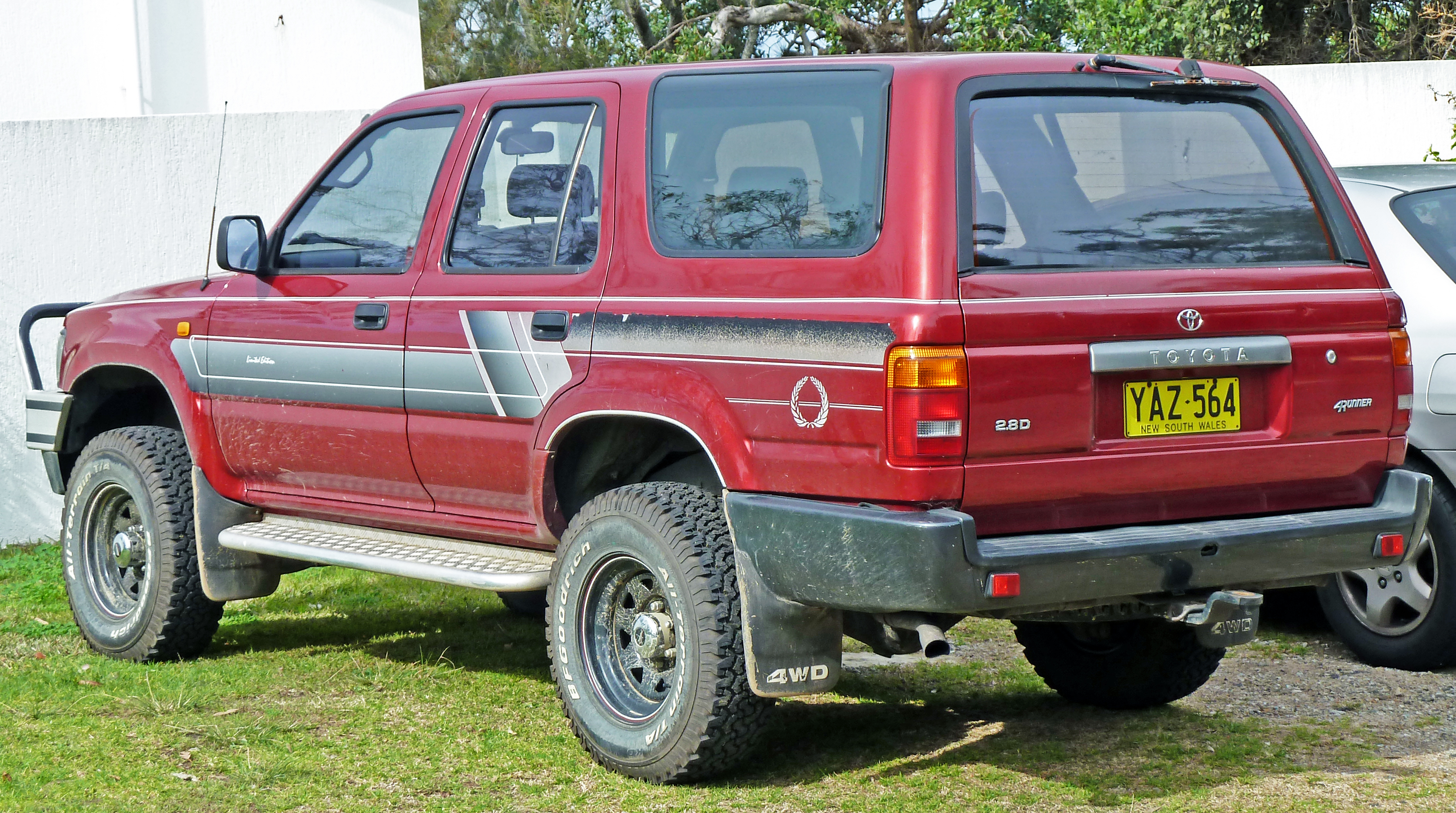 1993 Toyota 4Runner (LN130R) 5-door wagon. Photographed in :w:Cronulla, New South Wales]| , Australia.